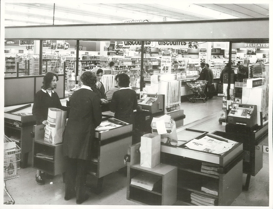 Images from NZ Archives Flickr albums Images uploaded in collaboration between WMUK and the University of Edinburgh Archives New Zealand Reference: AAQT 6539 W3537 141 / B4823